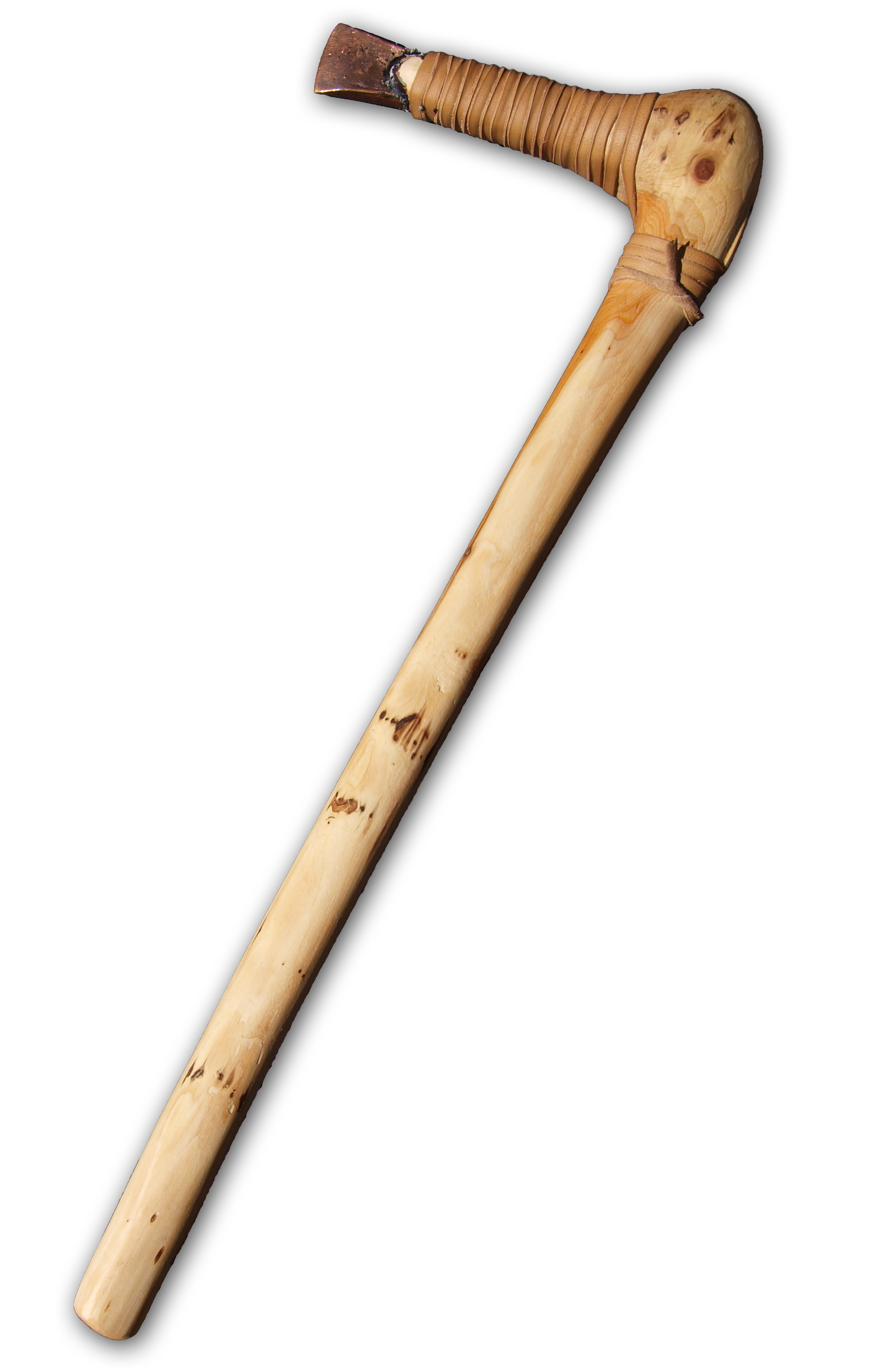 Reconstruction of the copper axe of Ötzi the Iceman. Reconstruction made by ArchäoTechnik Wulf Hein, Dorn-Assenheim, Germany.